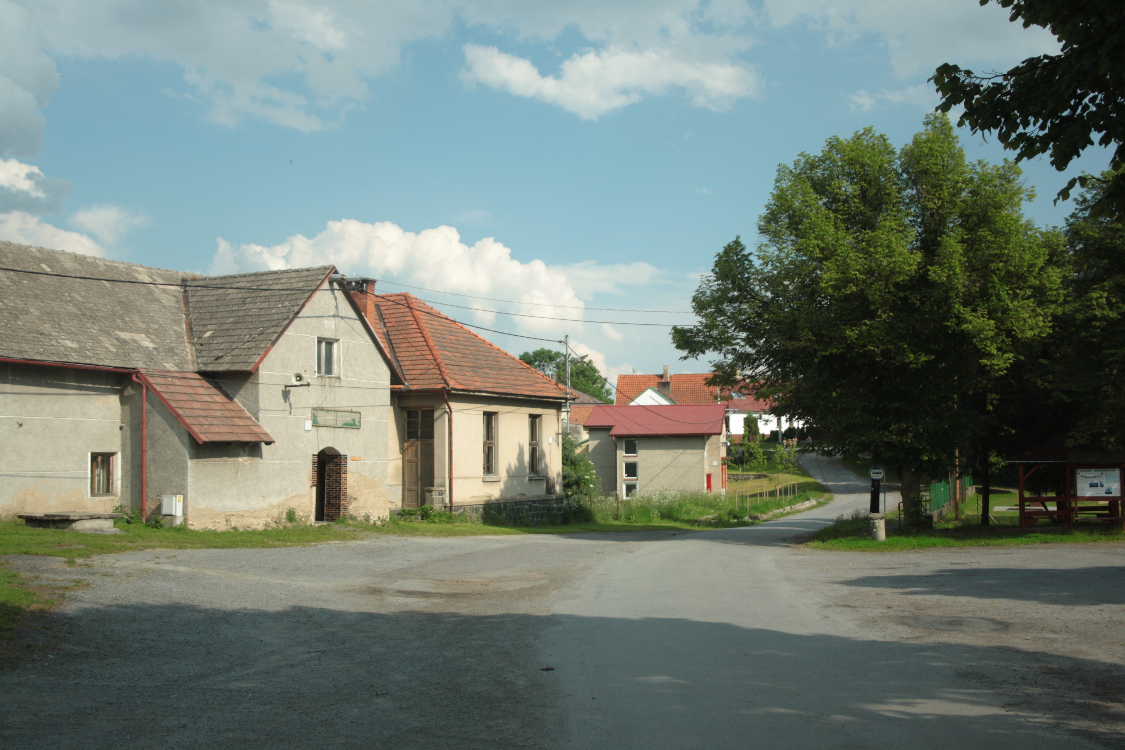 Chářovice common, Central Bohemian Region, CZ